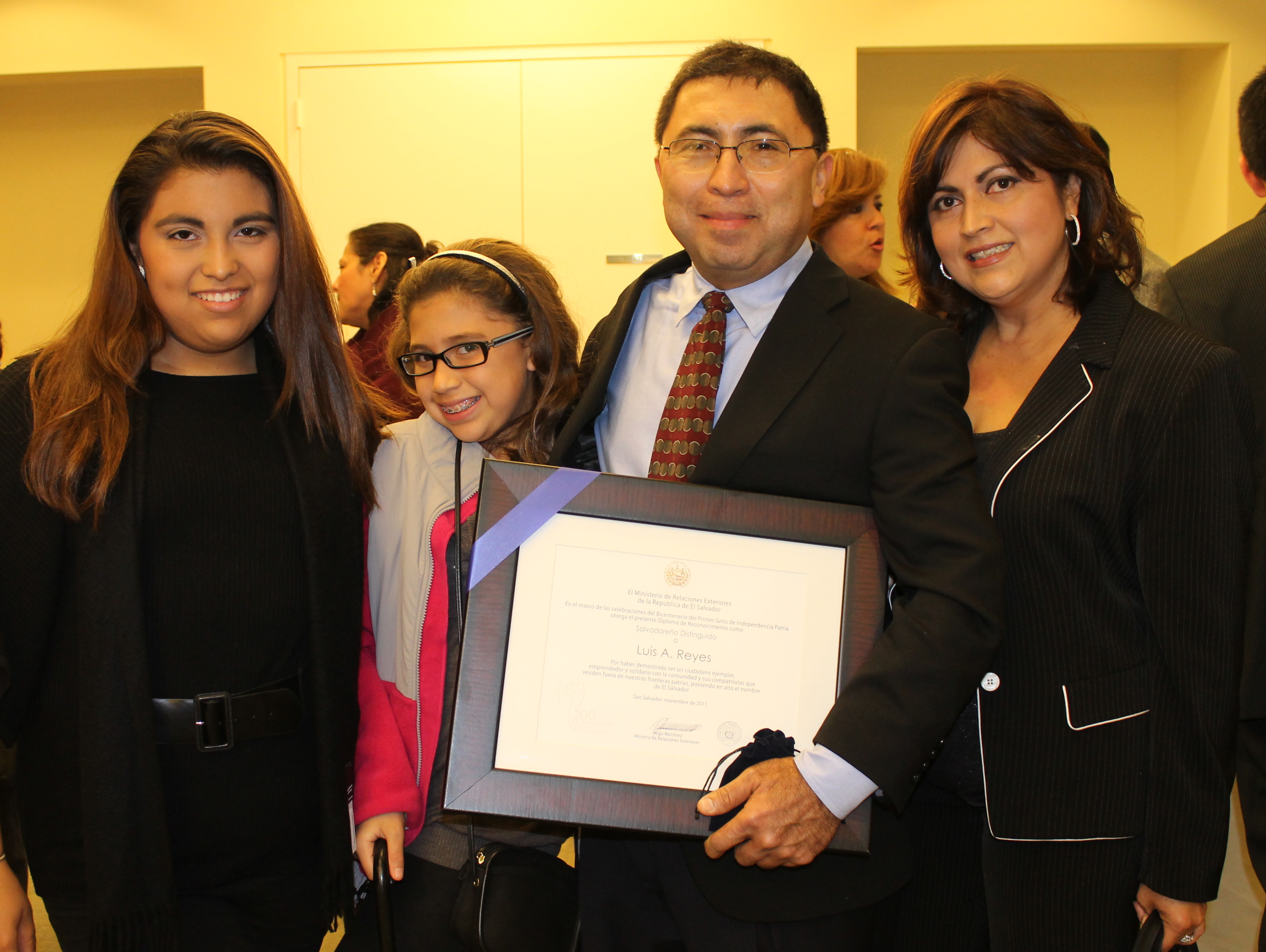 Reyes and his daughters and wife in 2011 (from left to right), Claudia , Daniella , and Lorena